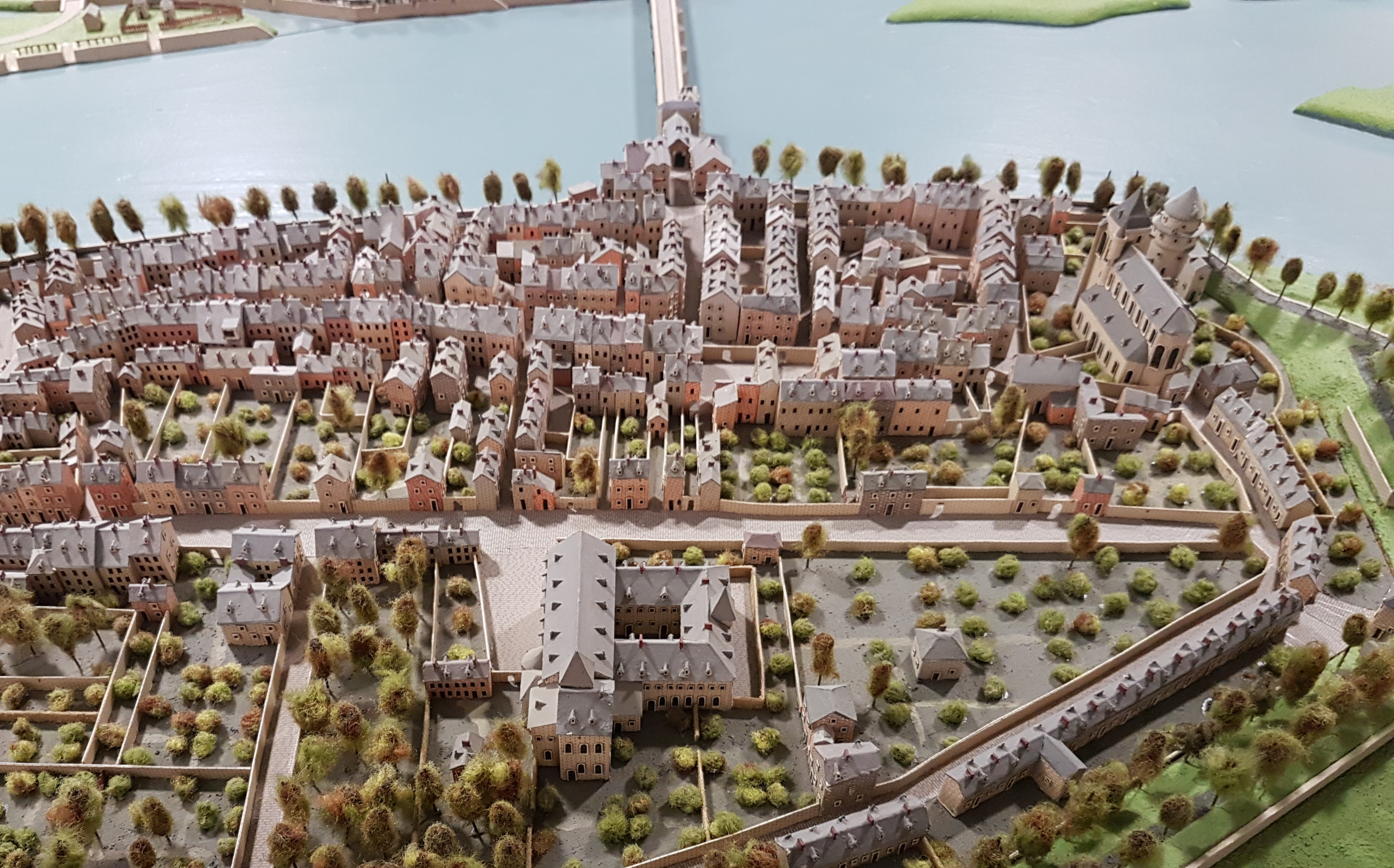 View of Wyck and the river Meuse in Maastricht, Netherlands. The street in the centre (left to right) is Wycker Grachtstraat, which divides the quarter into a more densely populated, western section and a sparsely populated eastern part. The former contains the medieval bridge, the church of St Martin and the Wycker Kruittoren or gunpowder tower (on the right). The largest building in the east section was the monastery of the Order of the Annunciation of the Blessed Virgin Mary (Annunciatenklooster). Close to the city wall are several barracks. Detail of the 20th-century copy of the Maquette of Maastricht, an exact scale model of the city and its fortifications in 1750, a project coordinated by French engineer Larcher d'Aubencourt during the French occupation of Maastricht. The original is in the Palais des Beaux-Arts in Lille, France. The copy is in the Centre Céramique in Maastricht.